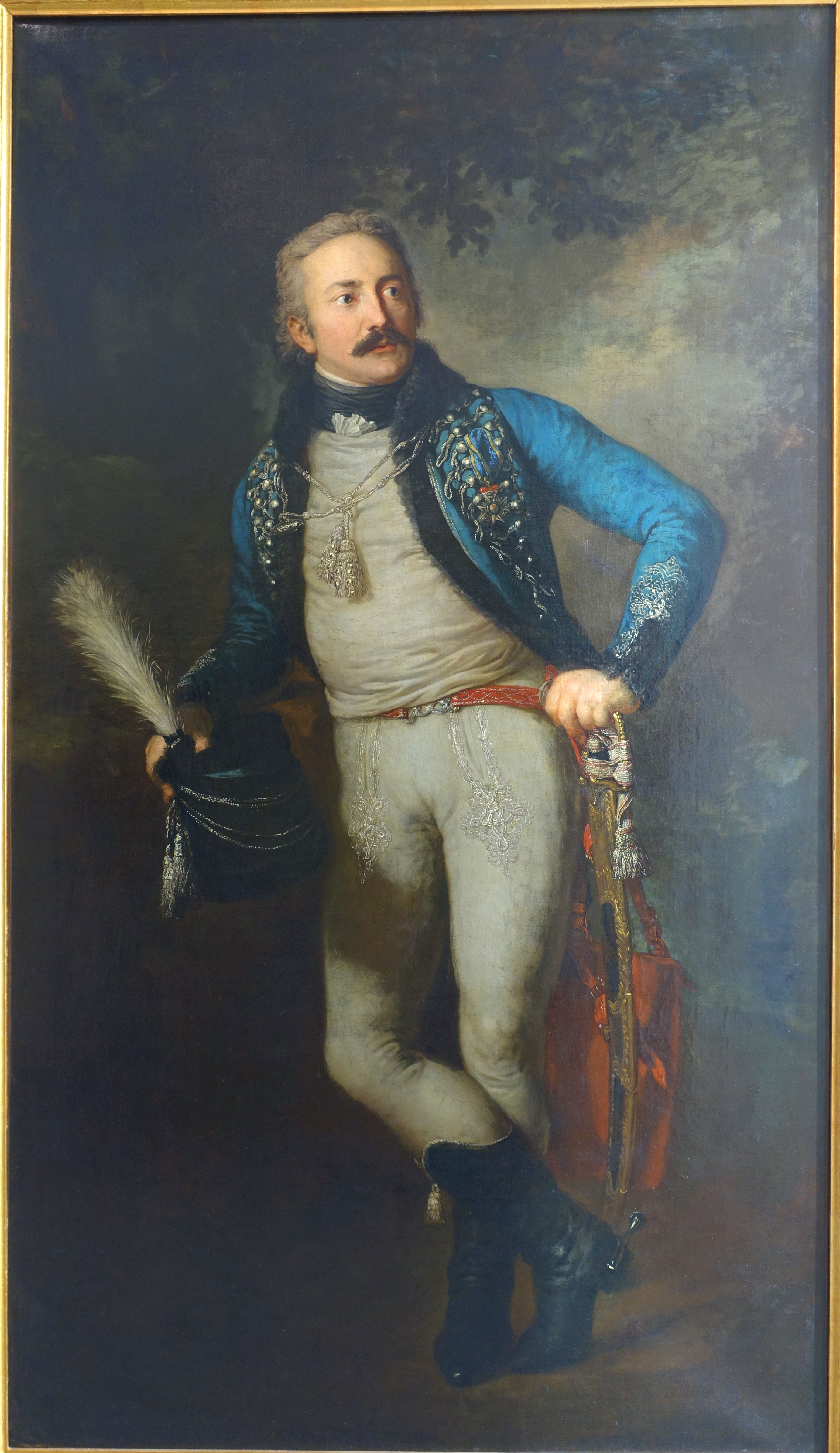 Exhibit in the Germanisches Nationalmuseum - Nuremberg, Germany.